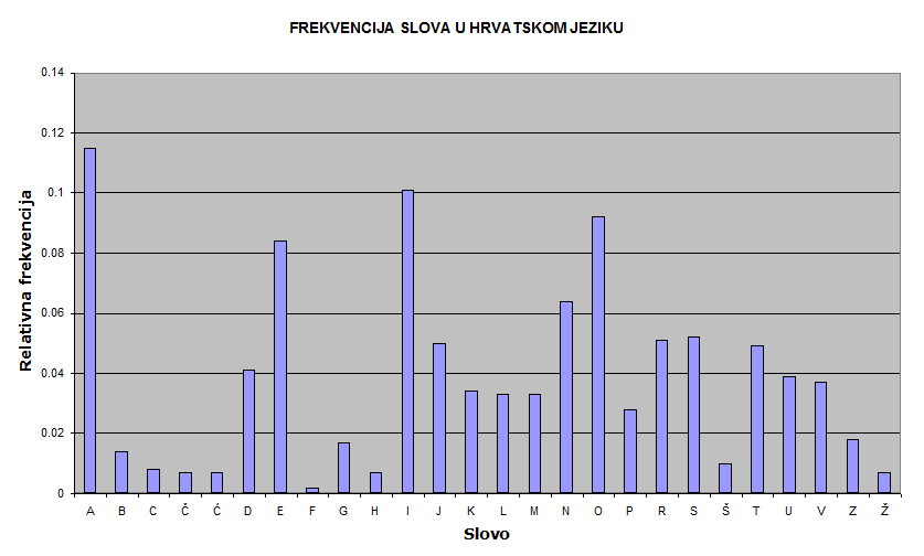 Croatian letter frequency - ABC sort